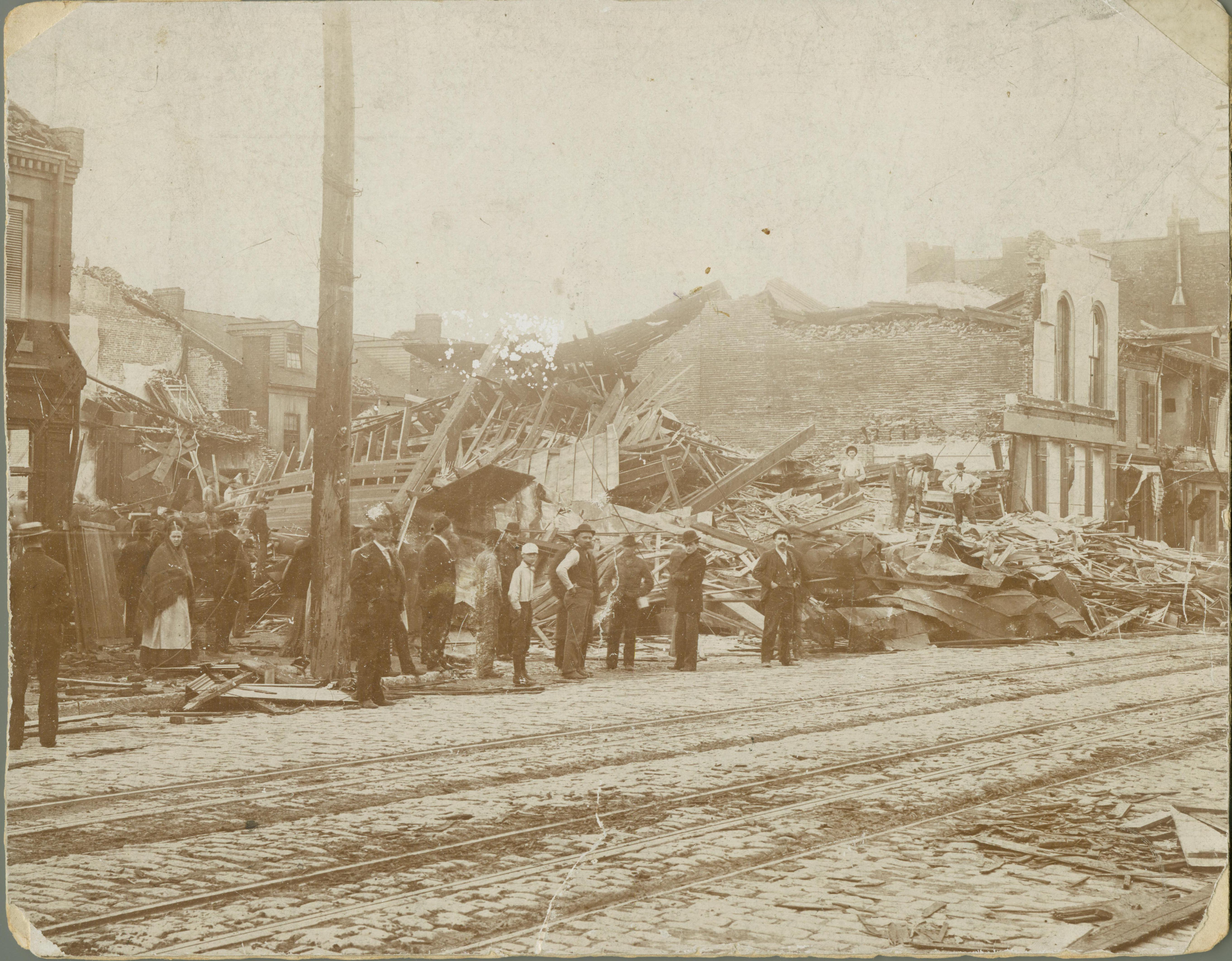 May 27, 1896 Tornado hits South Broadway, St. Louis, Mo.